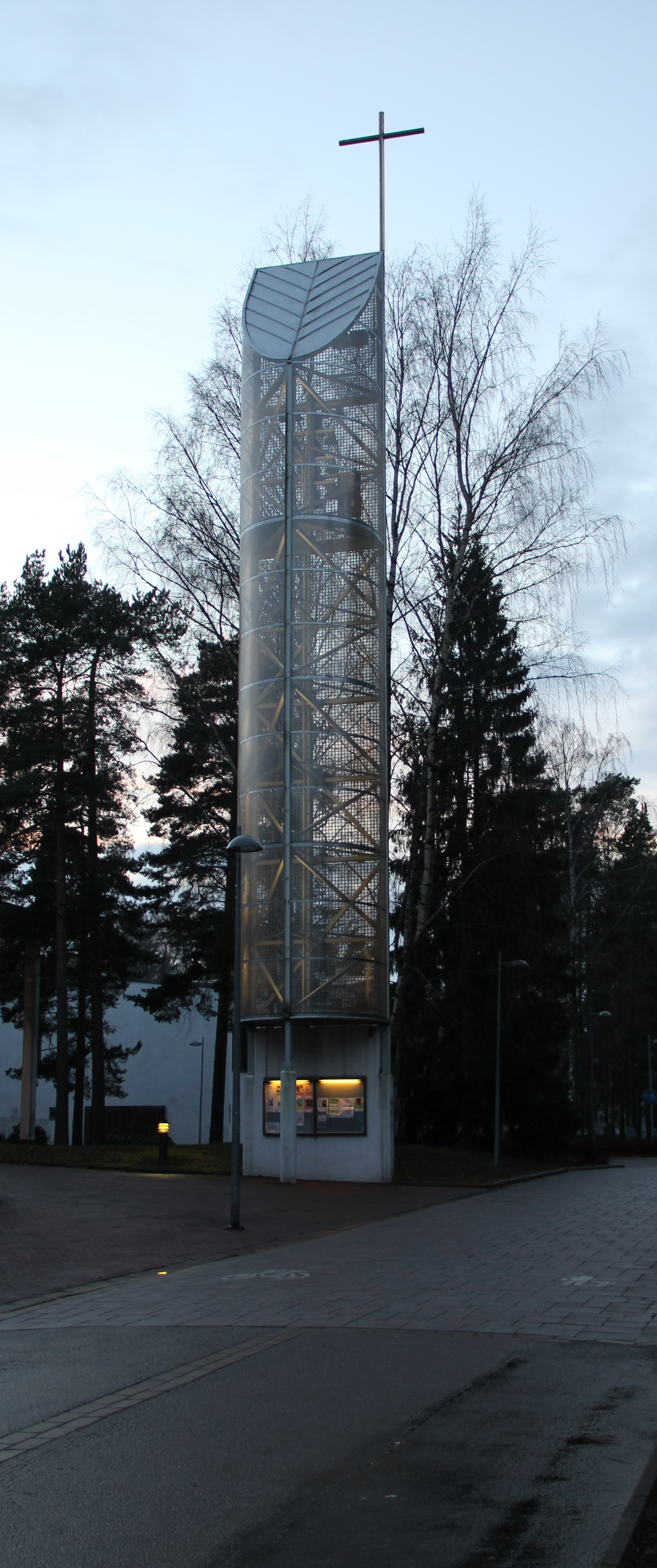 Myllypuro church, Helsinki, Finland. Architects Anja and Raimo Savolainen, completed in 1992. Bell tower.